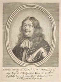 Julius Frans Saksen Lauenburg.